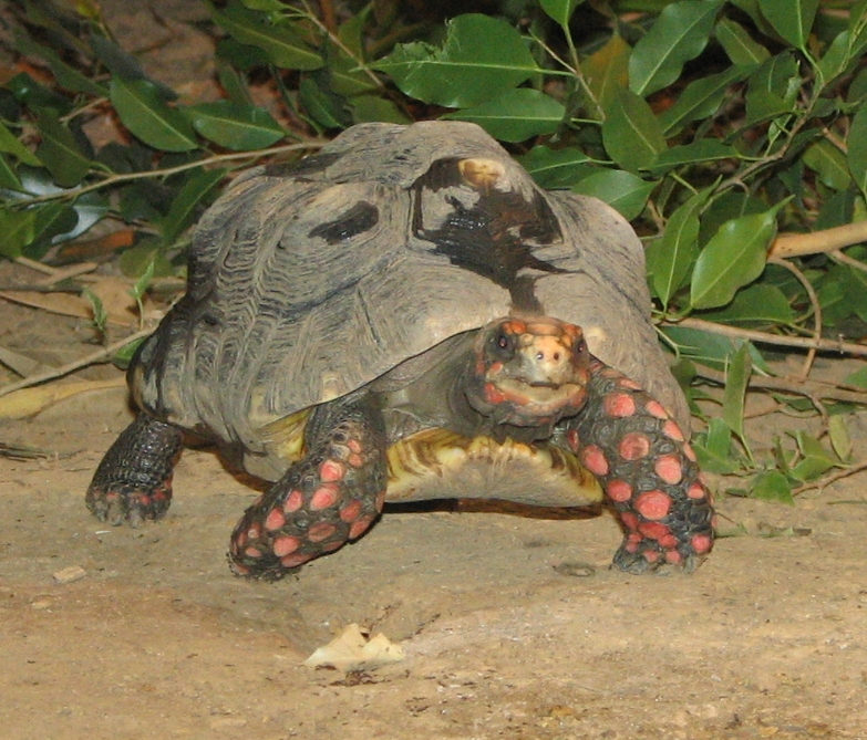 Red Footed Tortoise